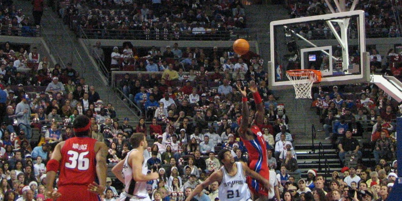 Photo of the Detroit Pistons Rasheed Wallace throwing an Alley oop pass to Ben Wallace.